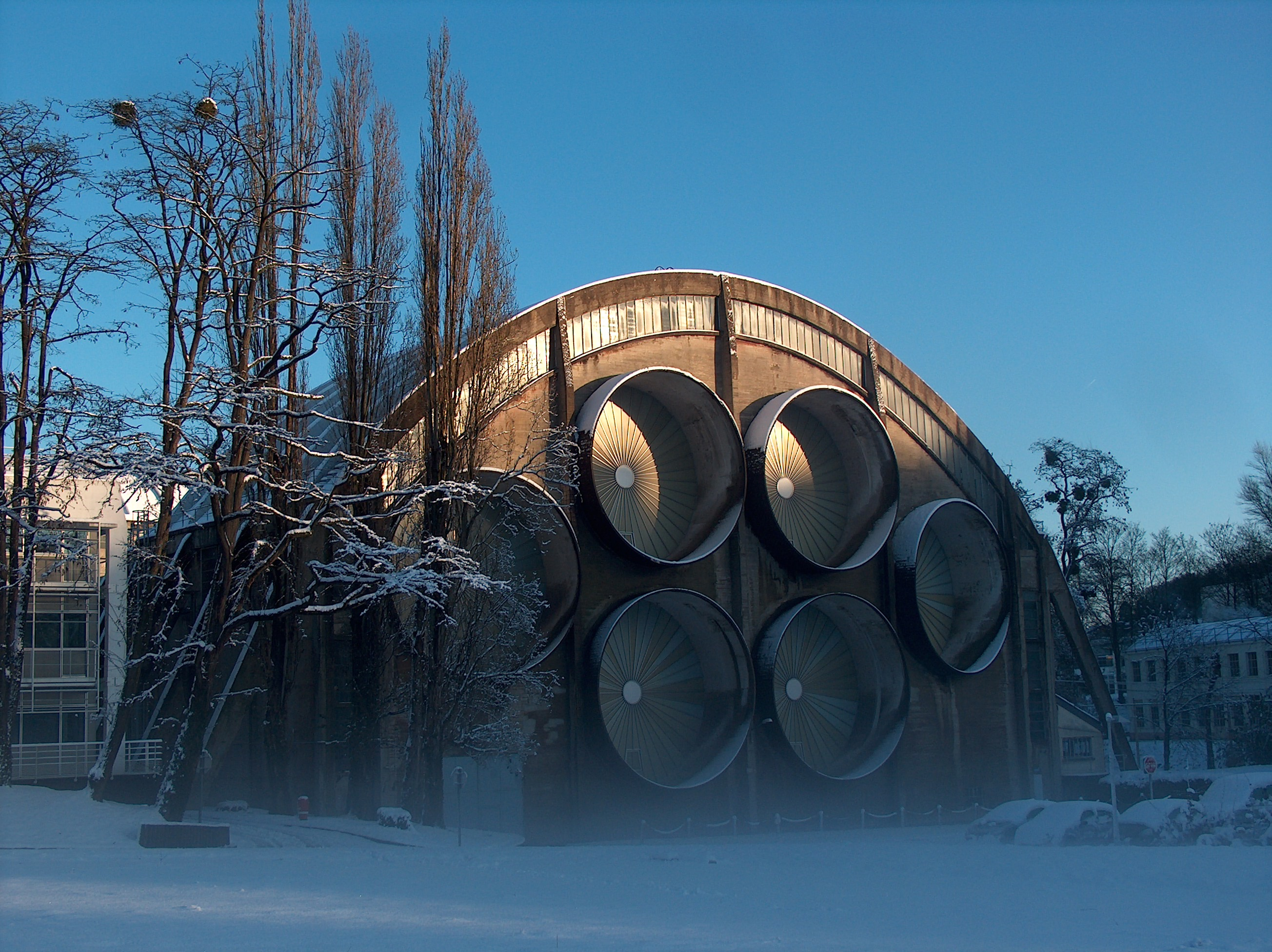 S1 old wind tunnel, Meudon (near Paris), France.The need to understand the aerodynamic phenomena, in as close as possible to reality, driven to achieve a large wind tunnel at atmospheric pressure, in Meudon. The S1 wind tunnel for testing of aircraft in real size was built from 1932 to 1934. Through the large dimensions of the test section, S1 can experiment had real 12 m wingspan, with the engine running and the driver on board. Until the 1970s, it is mainly aircraft (the Caravelle and the Concorde) but also cars (the 4 CV and the Beetle), trains, architectural elements, who have gone through the experimental chamber to be developed or improved (maximum speed 180 km / h). This 1933 building absorbs 7,000 m3 of reinforced concrete, 700 tons of iron, 1000 m3 of wood, and requires the establishment of 566 implementation plans (see old pictures on